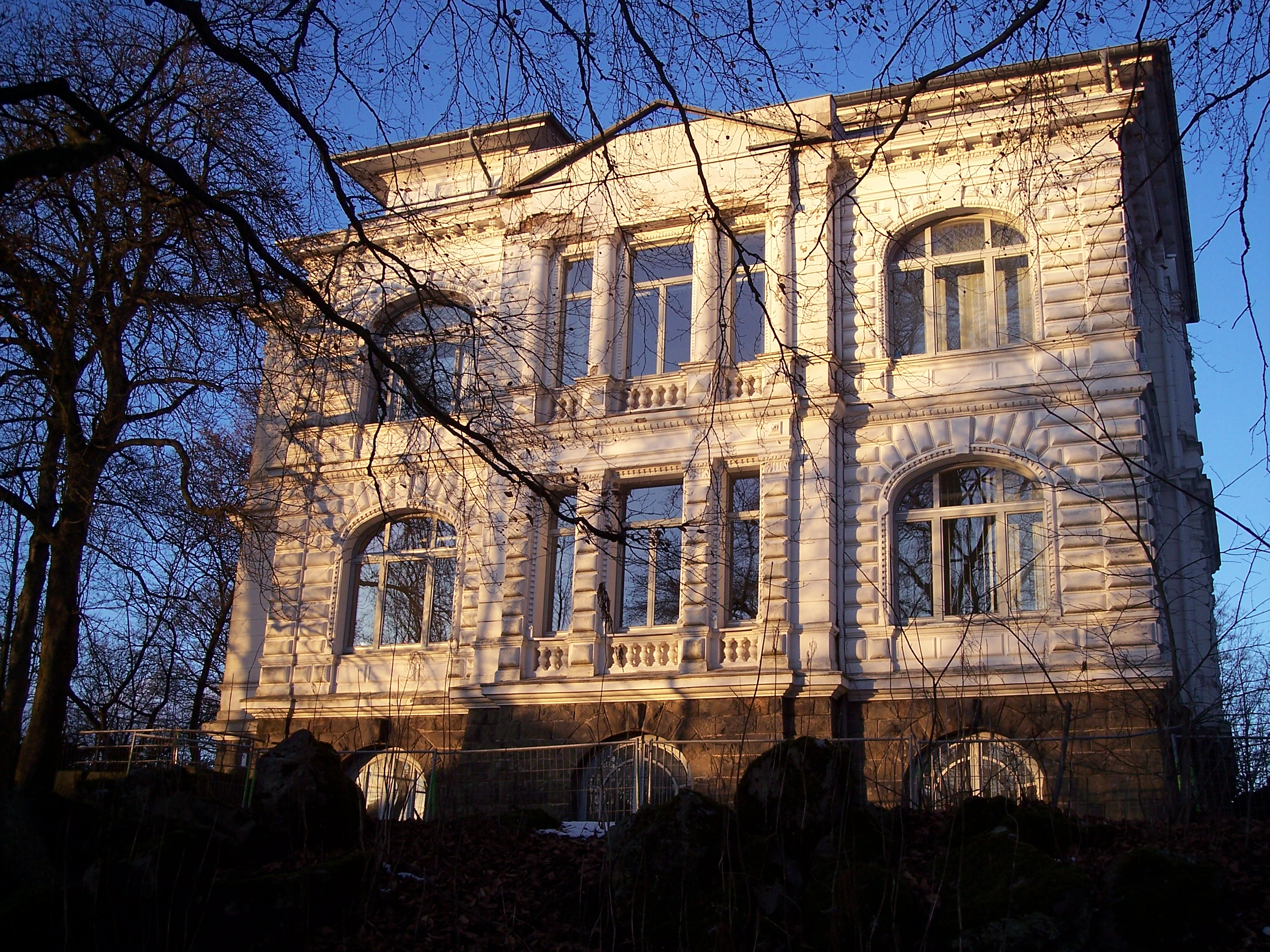 Lüdenscheid, Liebigstr. 11, former museum of local history